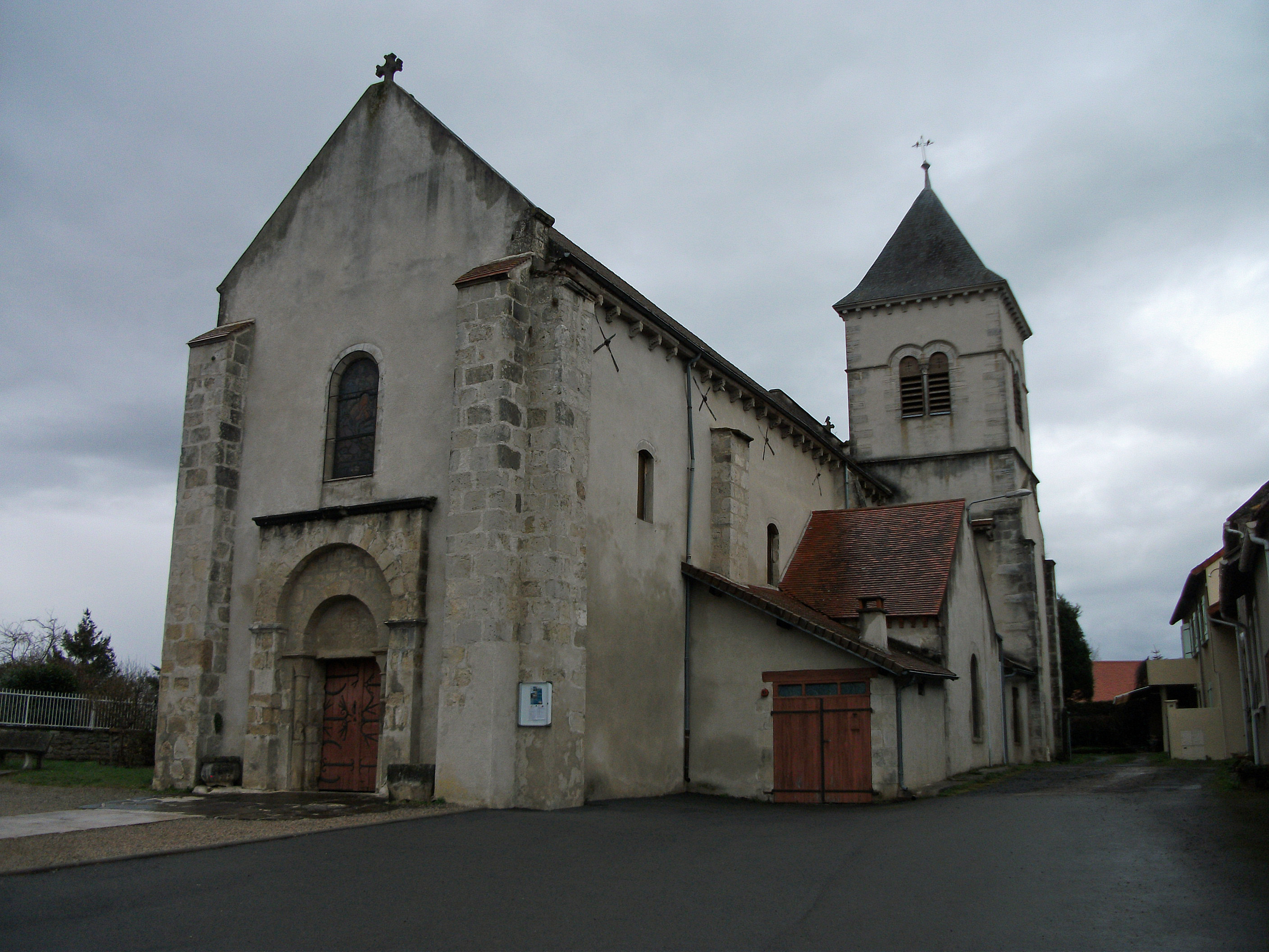 Church of Saint-Genès-du-Retz (Puy-de-Dôme) [10090]